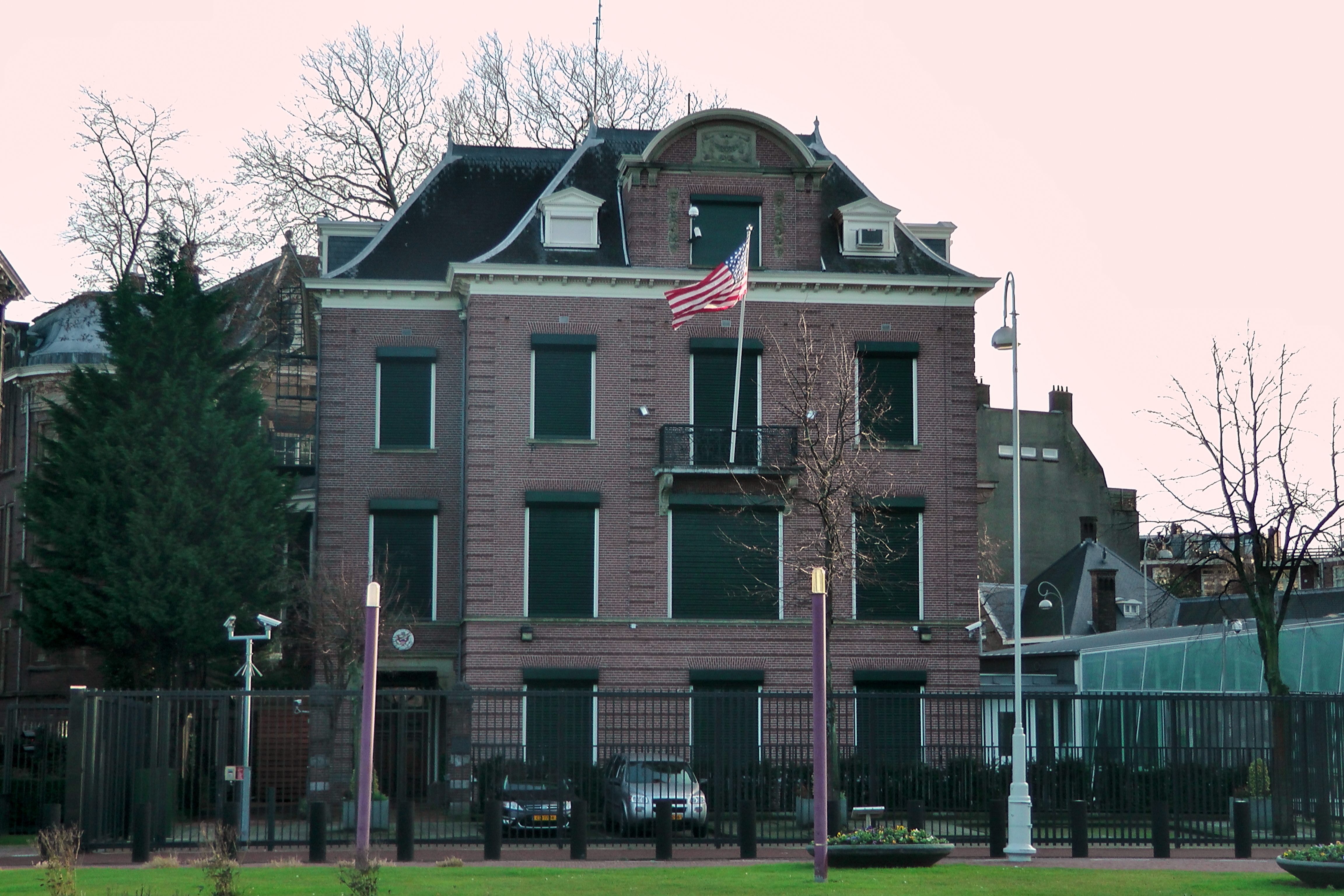 US Consulate General in Amsterdam Museumplein (Museum Square), Dec. 2013 - Photo by Persian Dutch Network